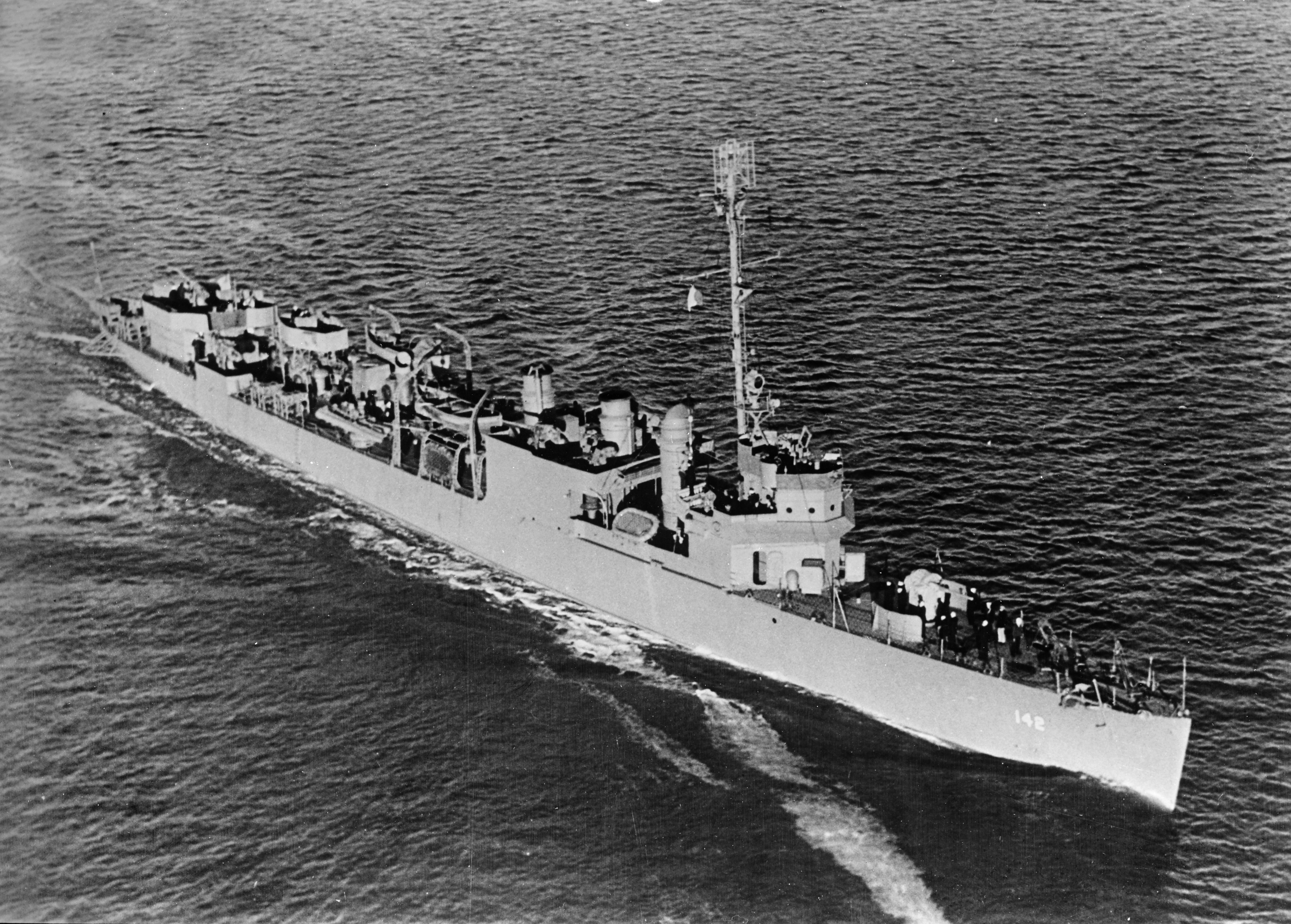 The U.S. Navy destroyer USS Tarbell (DD-142) underway in Charleston harbour, South Carolina (USA), 17 December 1942.